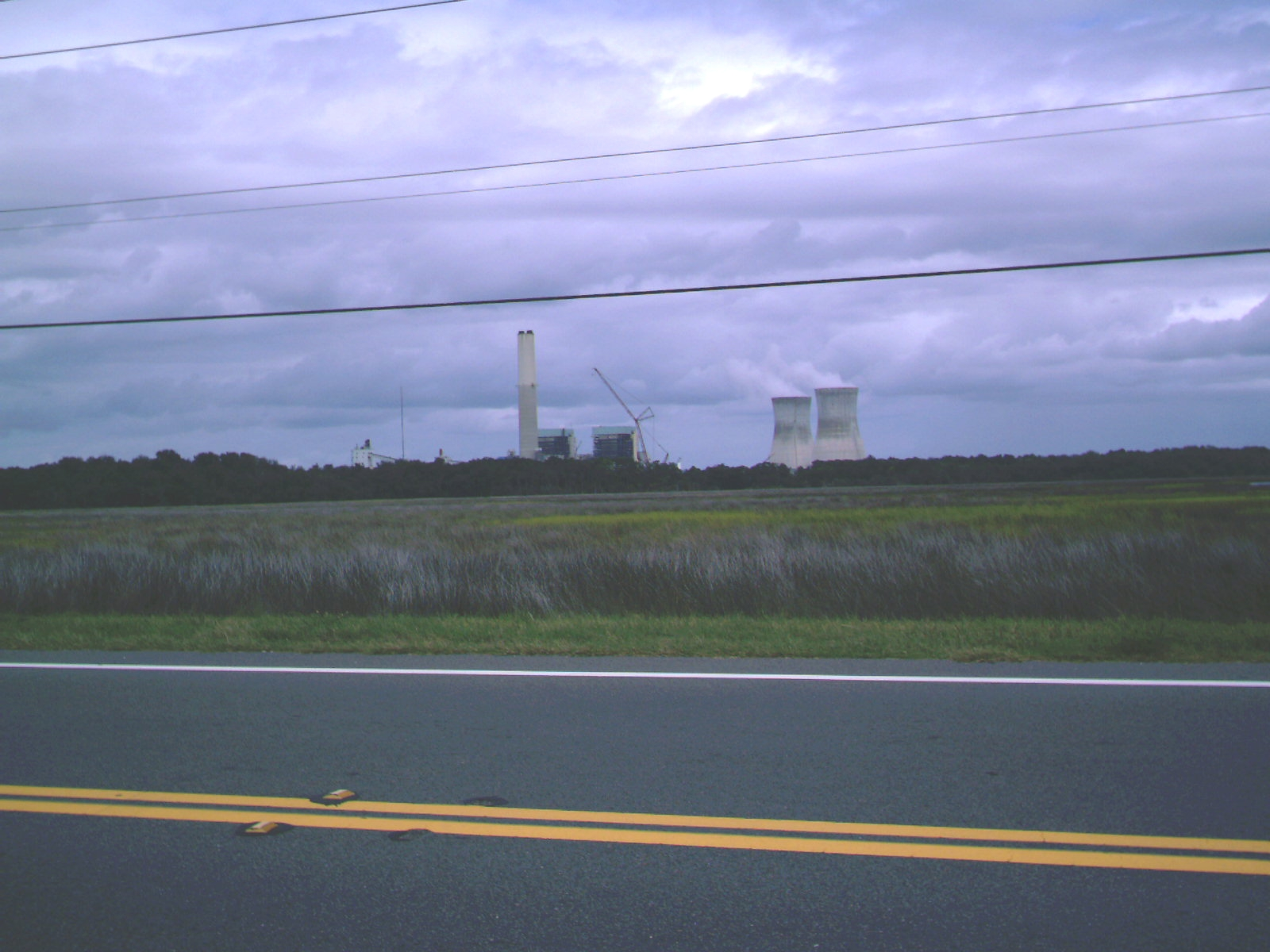 Photo of cooling towers at JEA Northside Generating Station in Jacksonville, Florida, taken from State Road 105, Taken while on vacation in area. Probably a correction: These hyperbolic cooling towers are actually located at the St. Johns River Power Park (SJRPP), located to the north of the Northside Generating Station